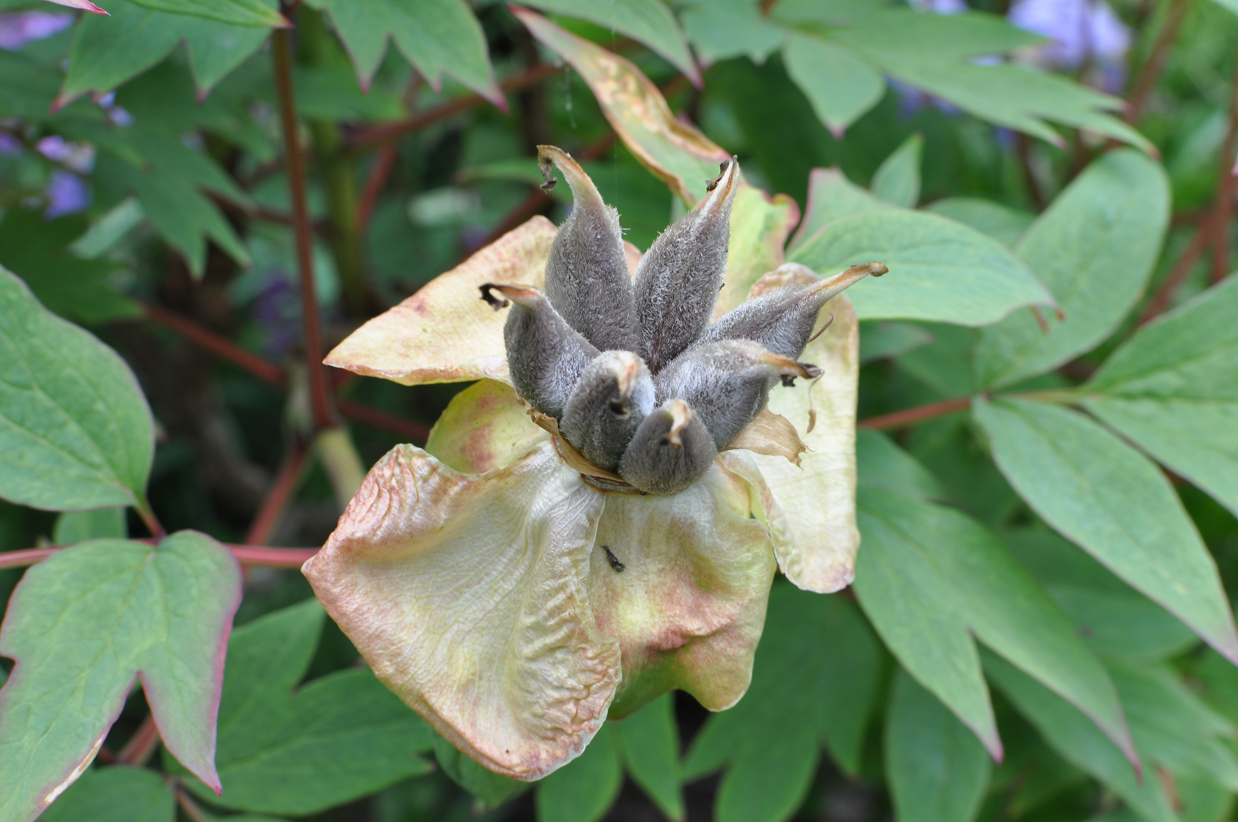 Fruit of tree peony 'Hana Kisoi' (Paeonia suffruticosa hybrid group). The fruit consists of seven follicles, oblong, densely tomentose, yellow brown.